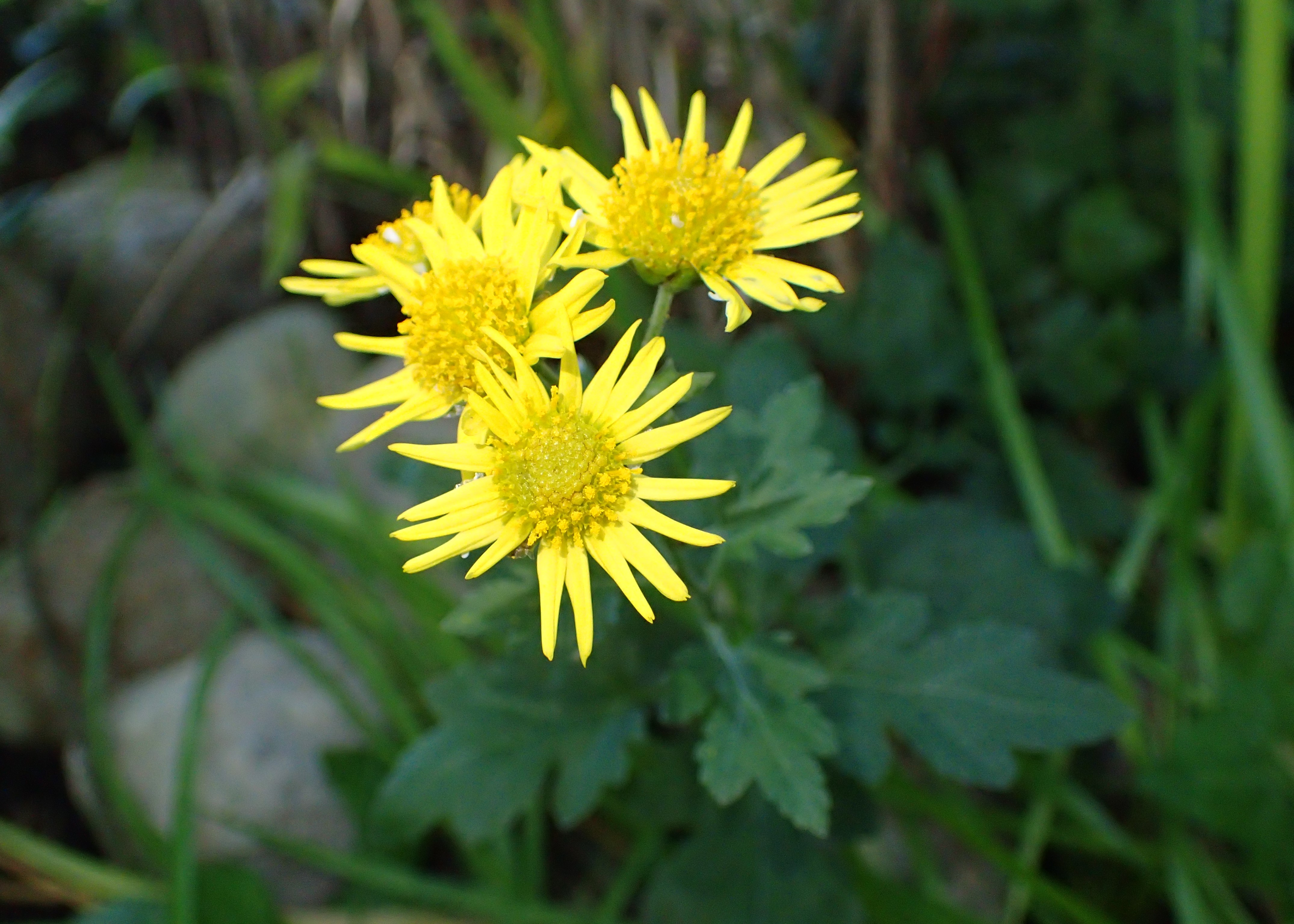 Chrysanthemum indicum in Botanical Garden of PBA Institute in Bydgoszcz